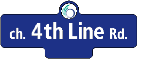 4th Line Road - road sign, Ottawa, Ontario, Canada